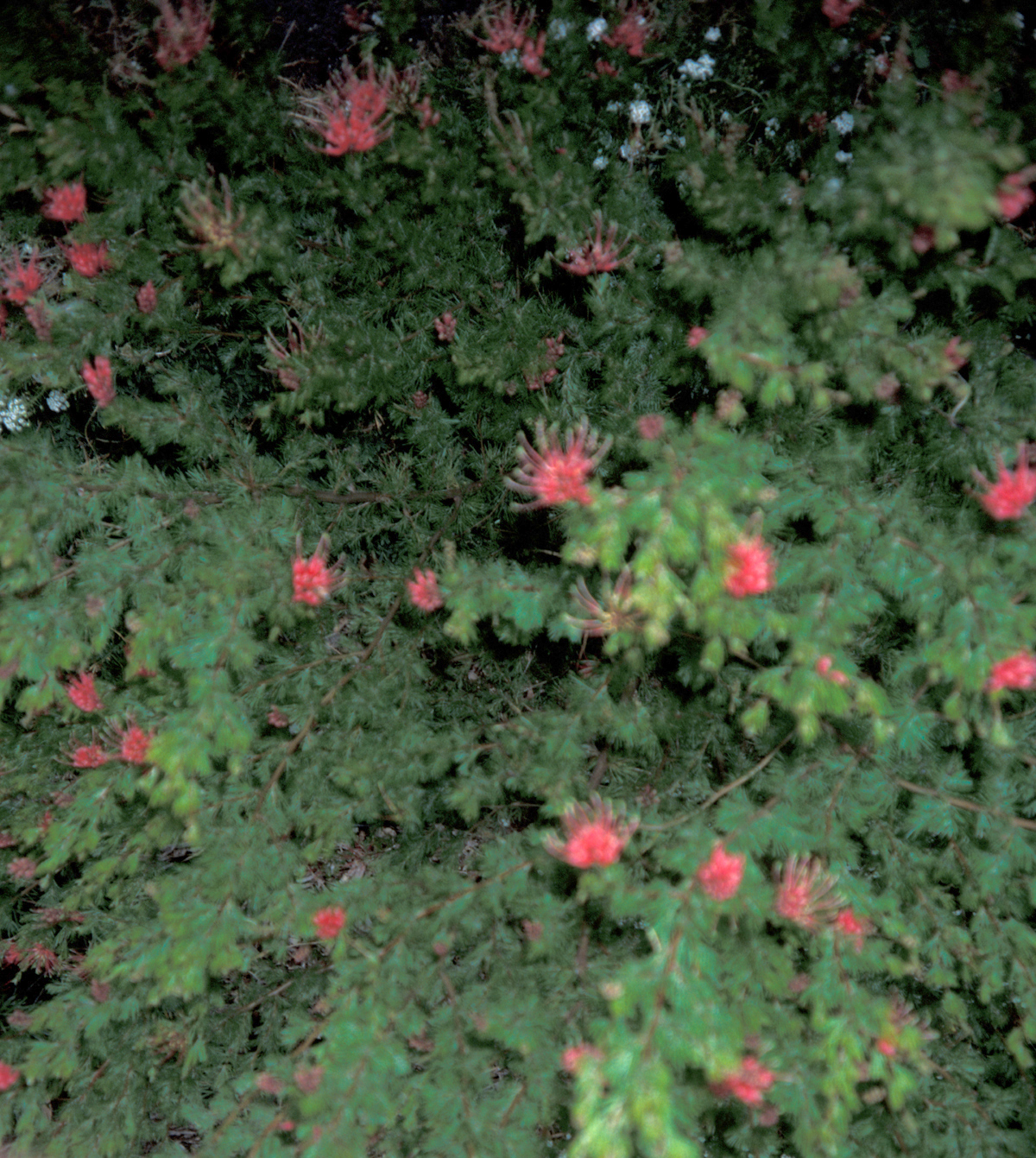 Grevillea wilsonii (habit). Location: Maui, Enchanting Floral Gardens of Kula